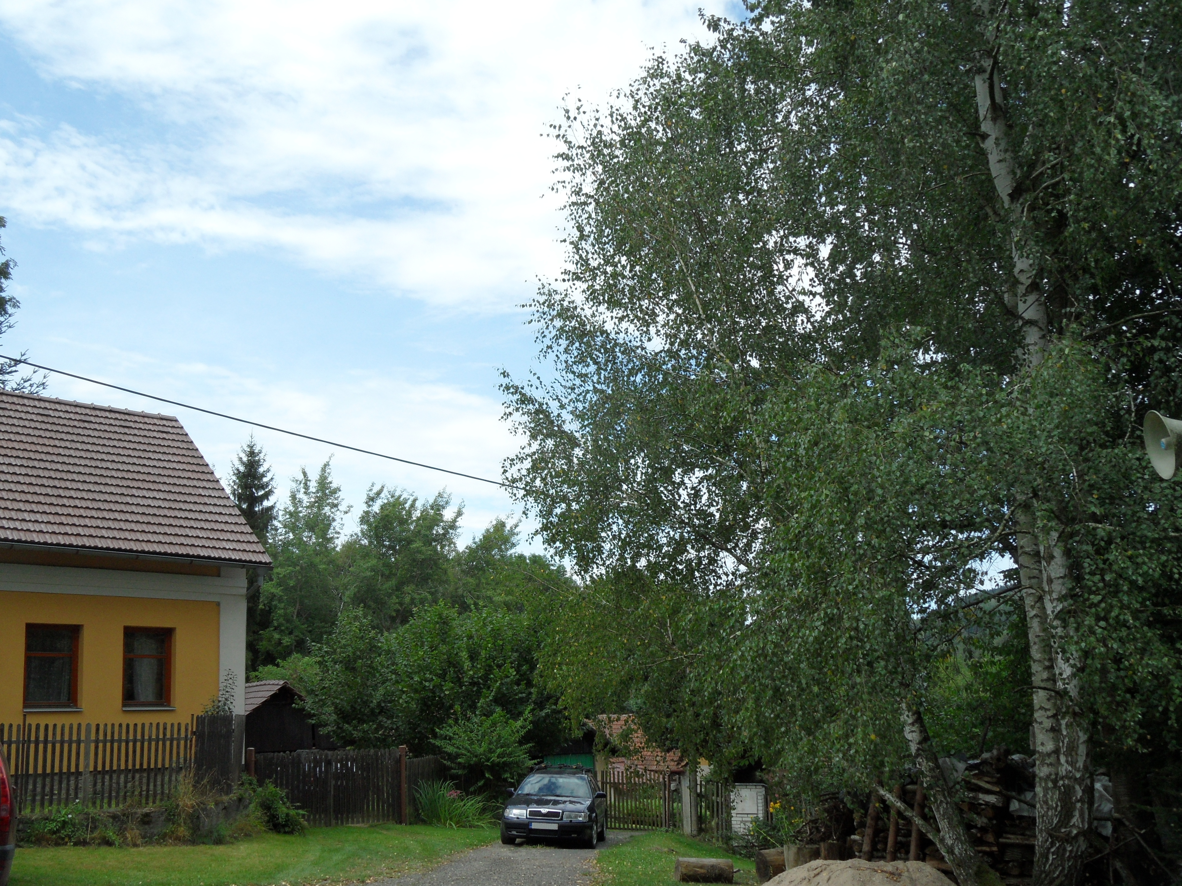 Skala (Vlastějovice) B. House in the Bend, Kutná Hora District, the Czech Republic.